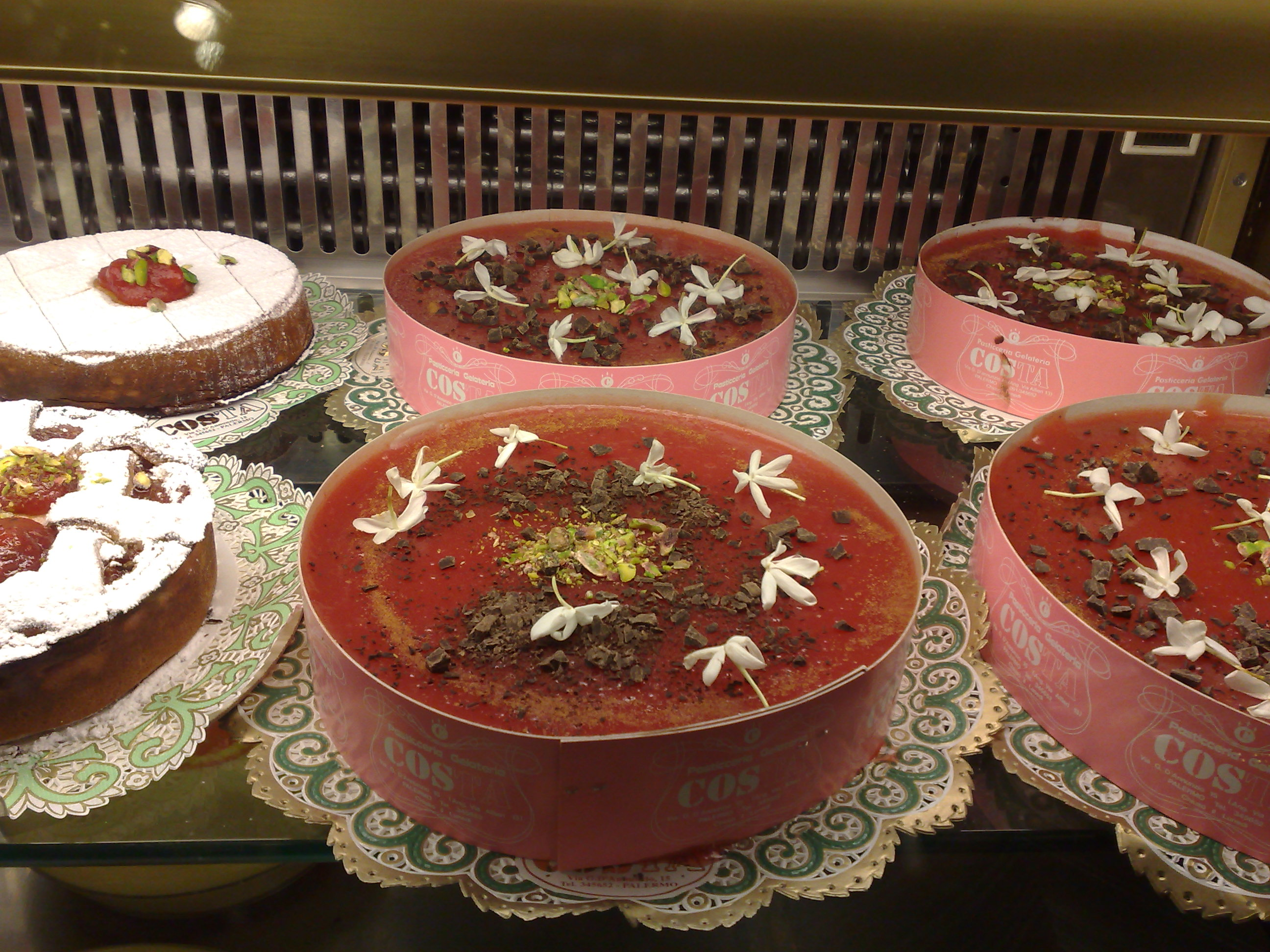 Gelo di mellone, a typical Sicilian dessert from Palermo: watermelon dessert with jasmin flowers.